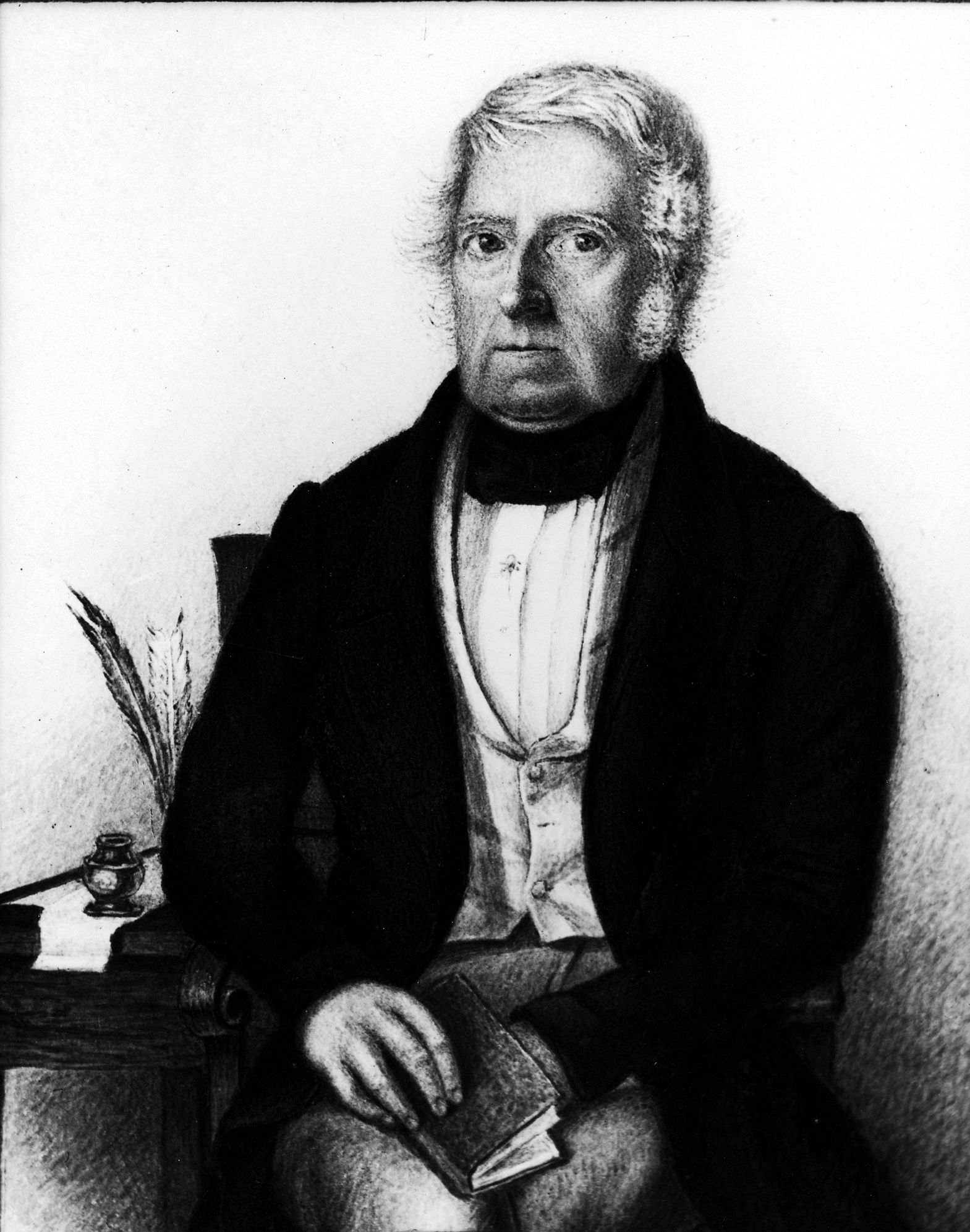 Leonardo Manin (1771-1853) historian and numismatic. He was president of Venice's Institute of Science, Literature and Arts